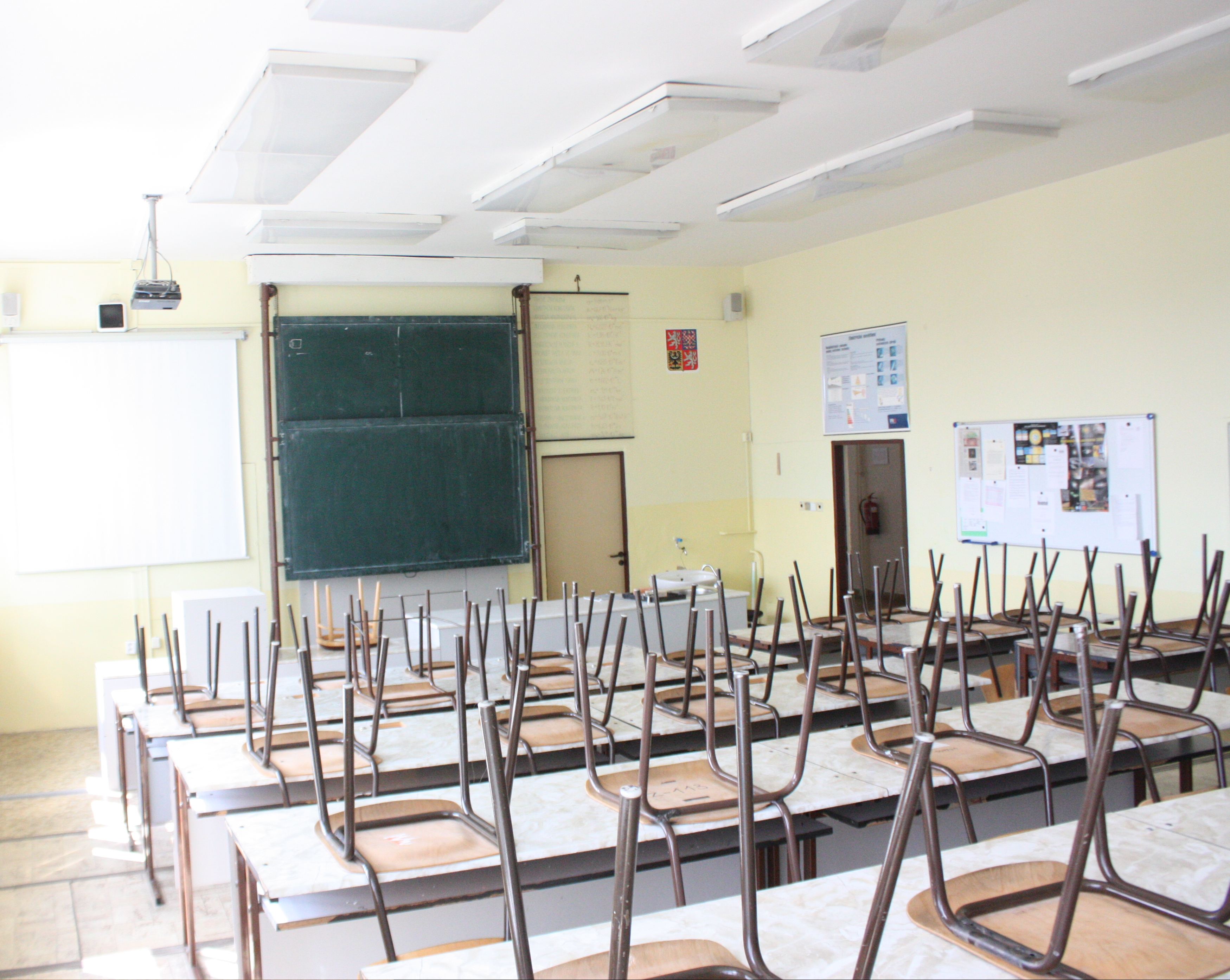 Gymnázium Brno-Řečkovice, physics class